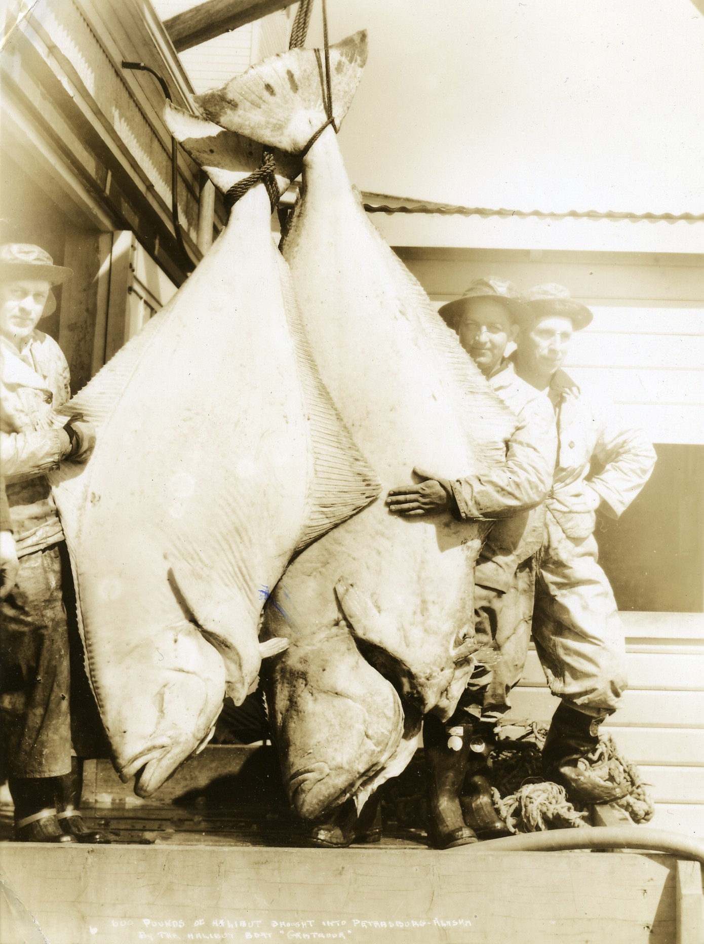 Here are 2 giant Halibut which were caught near Petersburg, Alaska in the 1930s.